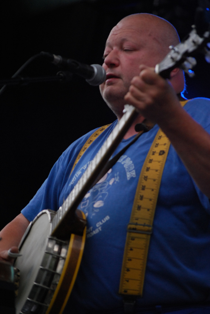 François Hadji-Lazaro live with his band 'Pigalle' during Terres du Son festival on 12th of july 2008